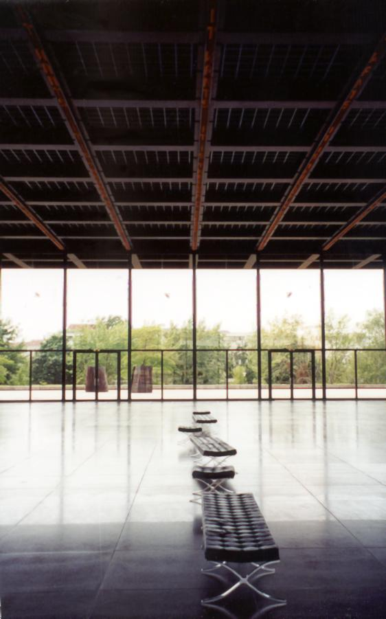 Neue Nationalgalerie Native nameNeue NationalgalerieParent institutionBerlin State MuseumsLocationBerlinCoordinates52° 30′ 25.17″ N, 13° 22′ 02.71″ E Established1968Web page control : Q32659772 VIAF: 142711389 ISNI: 0000 0001 1945 5804 LCCN: n92076661 GND: 5298136-8 WorldCat institution QS:P195,Q32659772